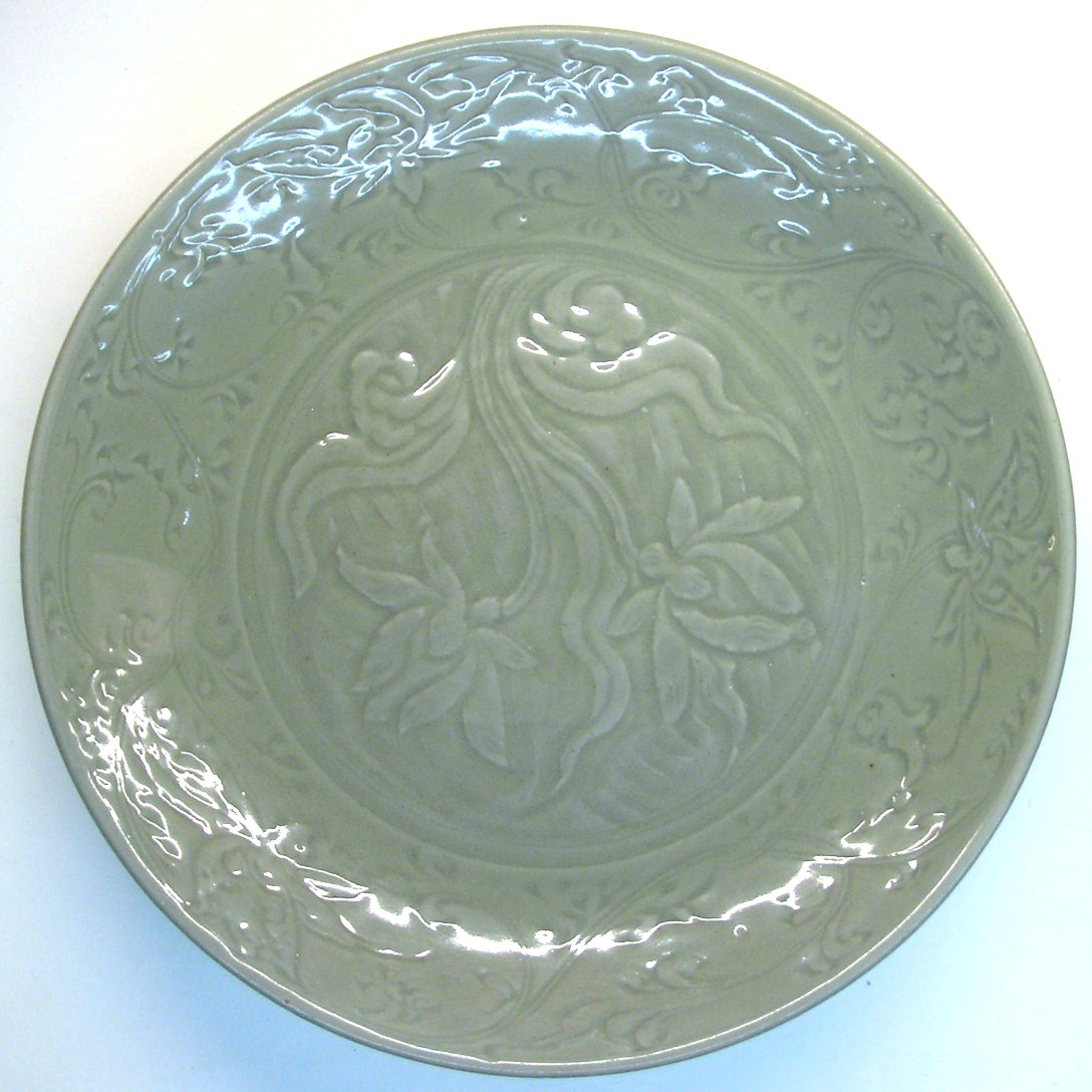 Celadon dish from the Yuan dynasty, in the china collection of the Topkapi Palace in Istanbul.